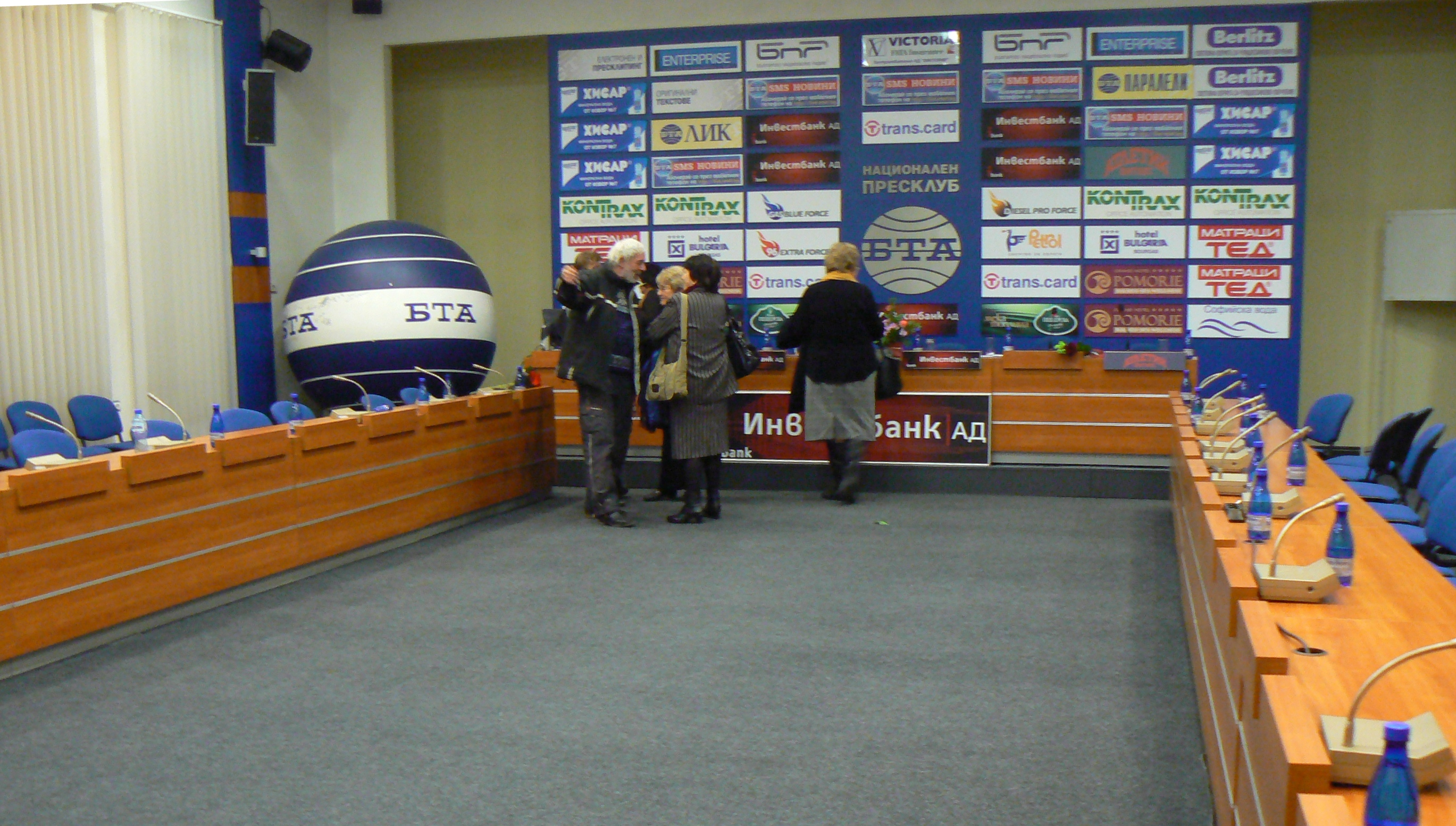 The hall of the National Pressclub of Bulgarian News Agency